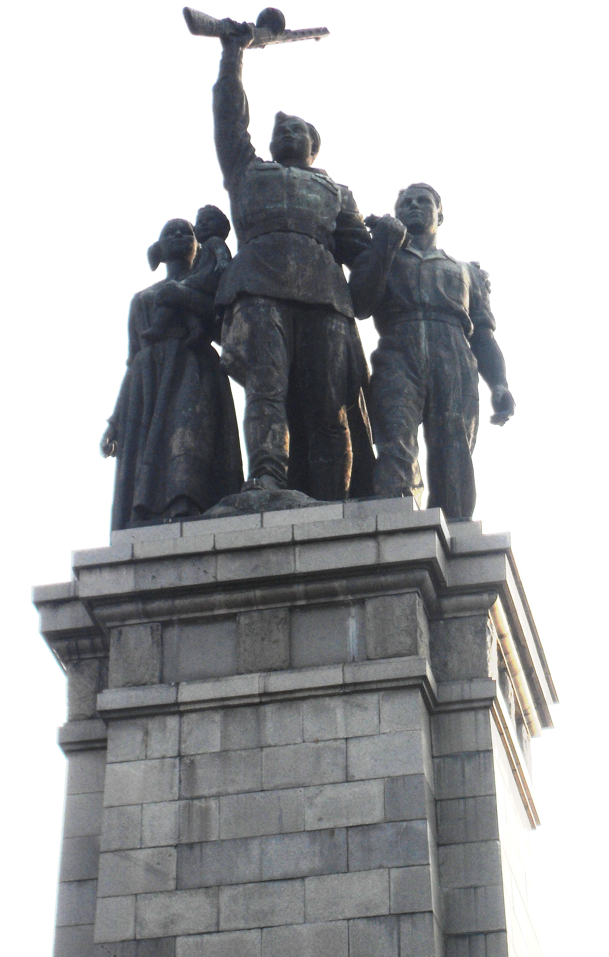 The Monument to the Soviet Army (Bulgarian: Паметник на Съветската армия, Pametnik na Savetskata armia) is a monument located in Sofia. There is a large park around the statue and the surrounding areas. It is a popular place where many young people gather. The monument is located on Tsar Osvoboditel Boulevard, near Orlov Most and the Sofia University. It represents a soldier from the Soviet Army, surrounded by a woman and a man from Bulgaria. There are other, secondary sculptural compositions part of the memorial complex around the main monument. The monument was built in 1954.